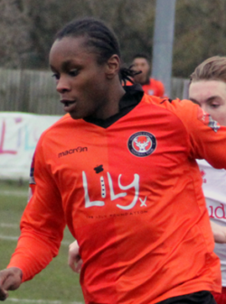 Shawn McCoulsky in action for Walton Casuals in February 2015.